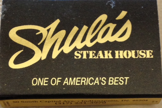 Matchbook from Shula's Steakhouse in Indianapolis, Indiana, circa 1990.